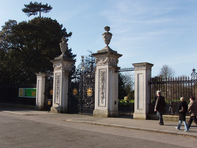 Elizabeth Gate, Kew Gardens, from Kew Green